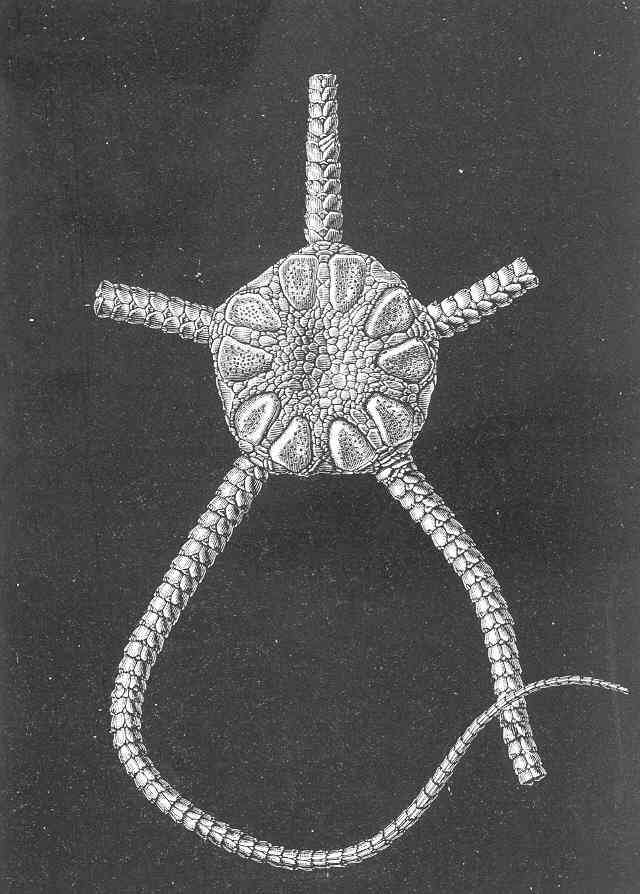 Ophiomusium lymani, Wyville Thomson. Dorsal surface Subject: Ophiomusium, Ophiuroidea Tag: Invertebrates